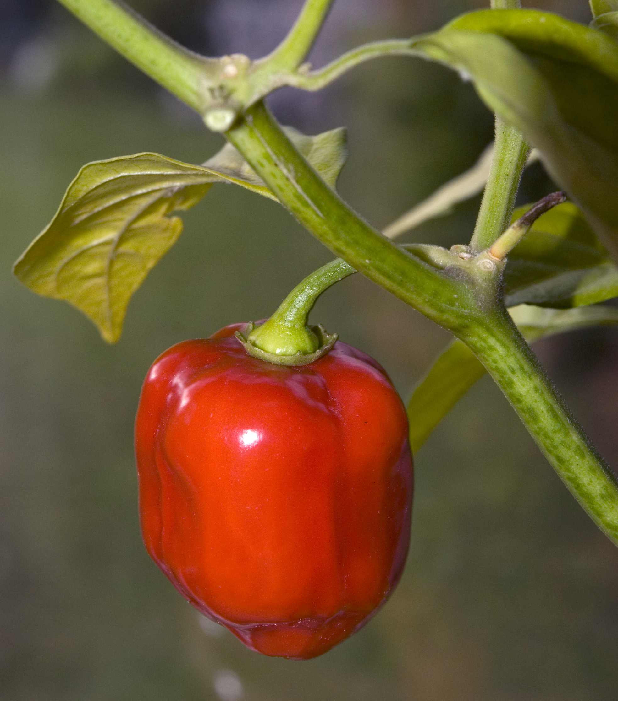 Picture of a "Red Savina" pepper.